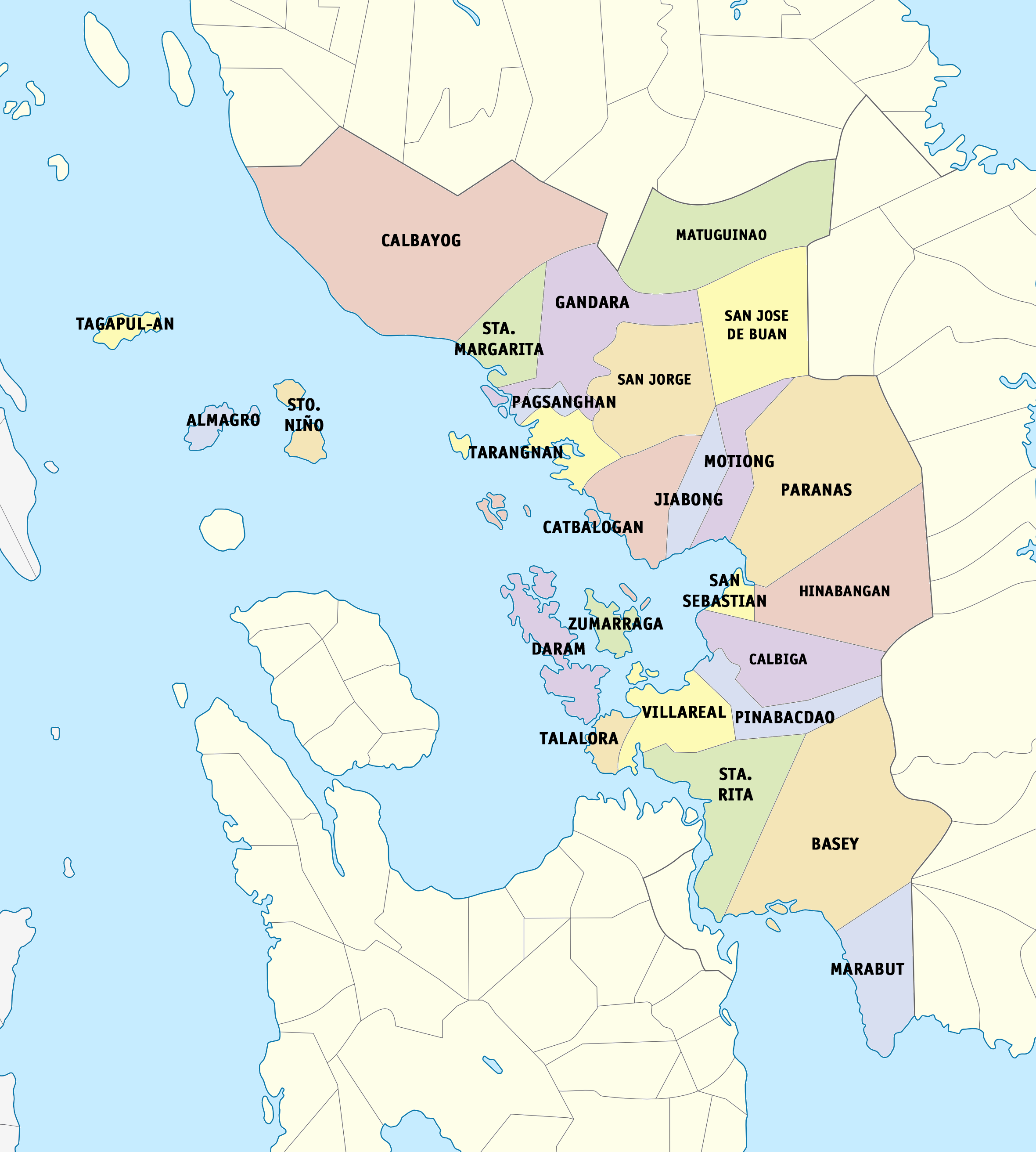 Political map of Samar, Philippines Filipino: Mapang politikal ng Samar, Pilipinas